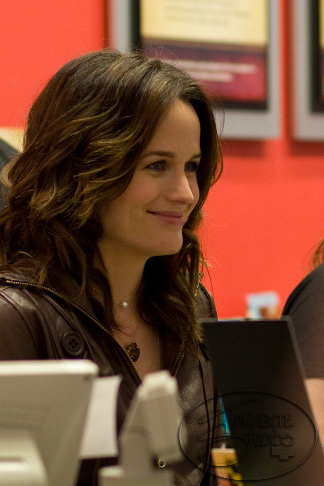 Elizabeth Reaser - New Moon DVD Release Party